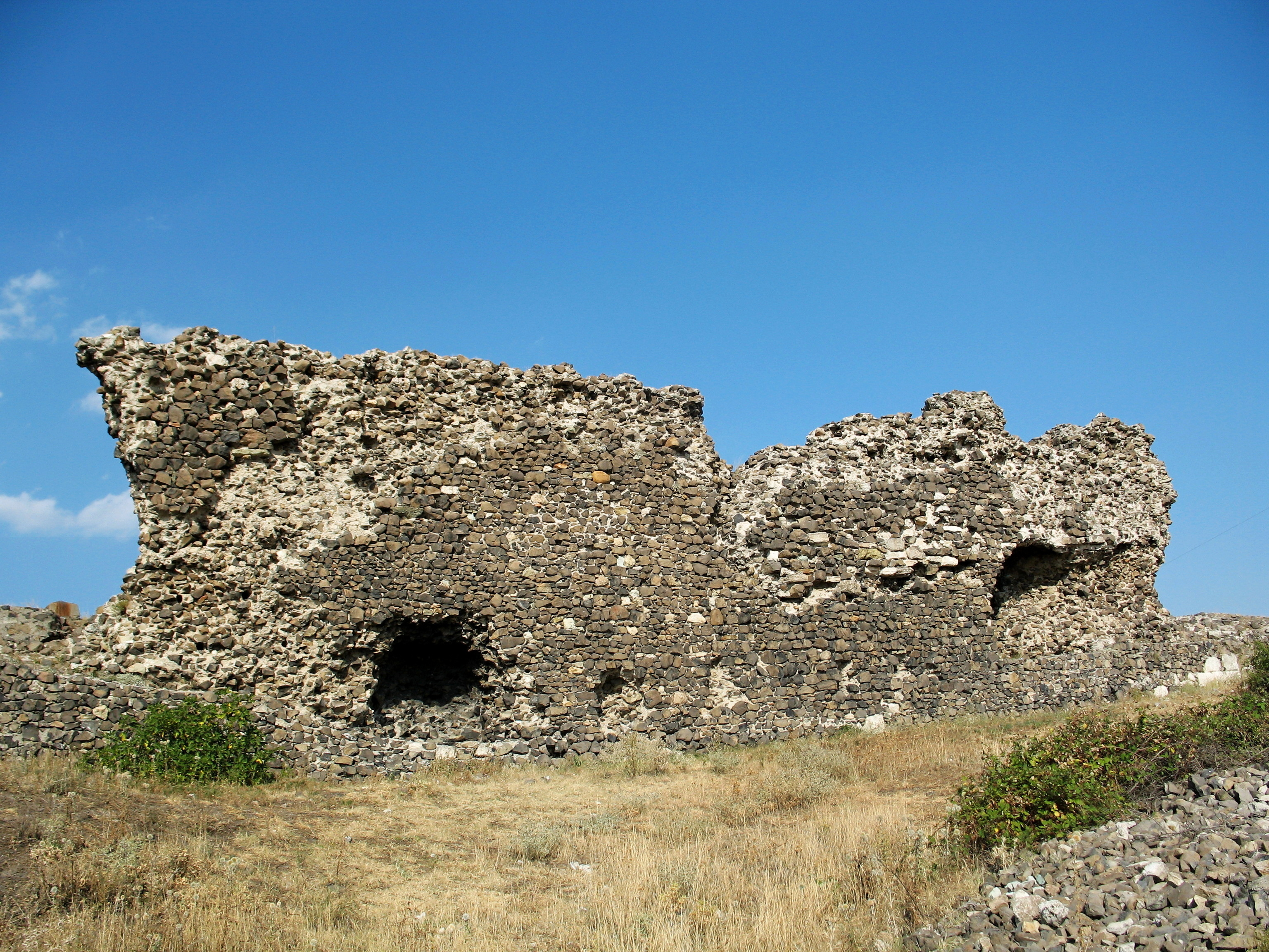 Vishegrad fortress near Kardzhali, southern Bulgaria